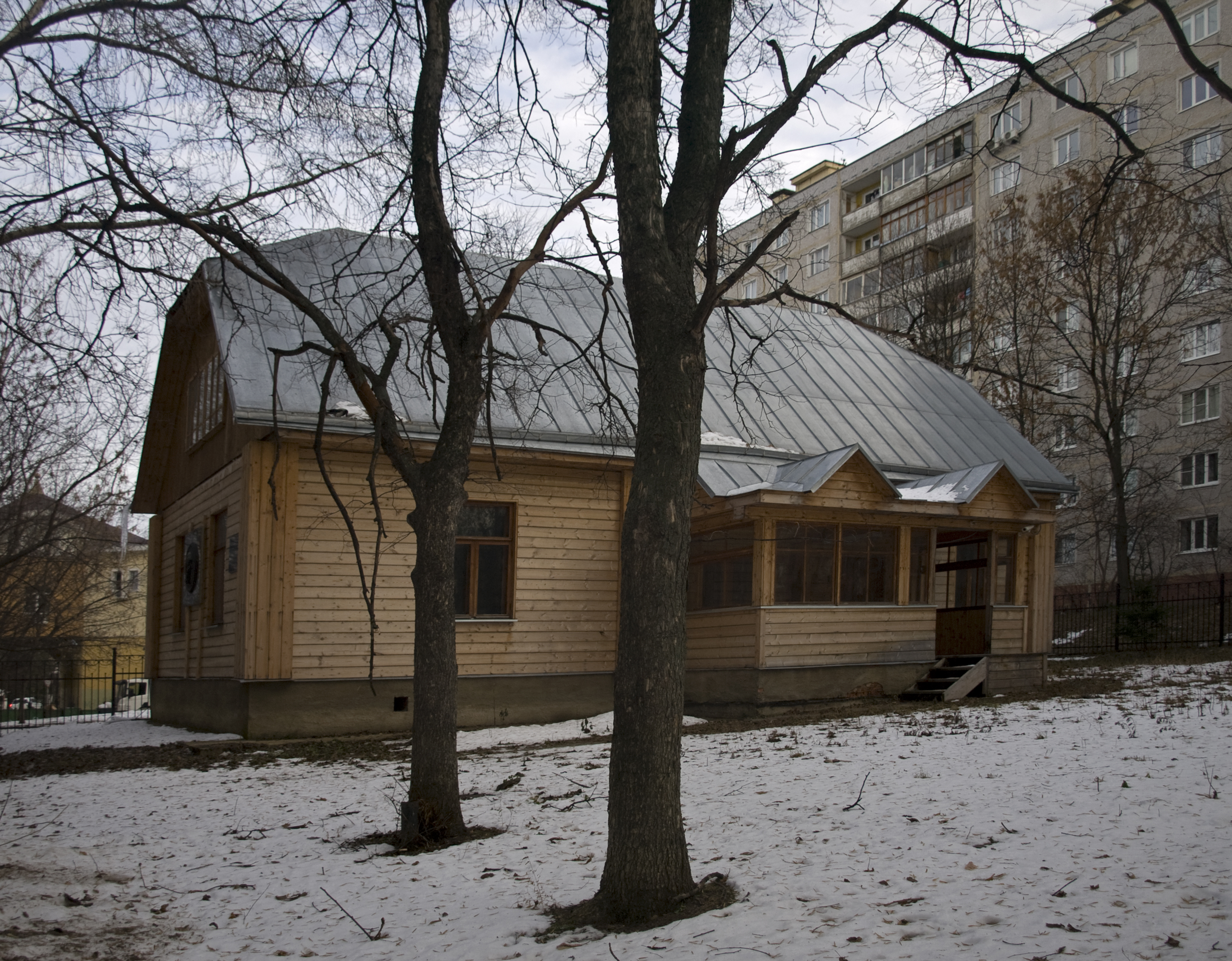 Olsufyev House, Dmitrov. Pyotr Kropotkin lived here between 1917 and 1921